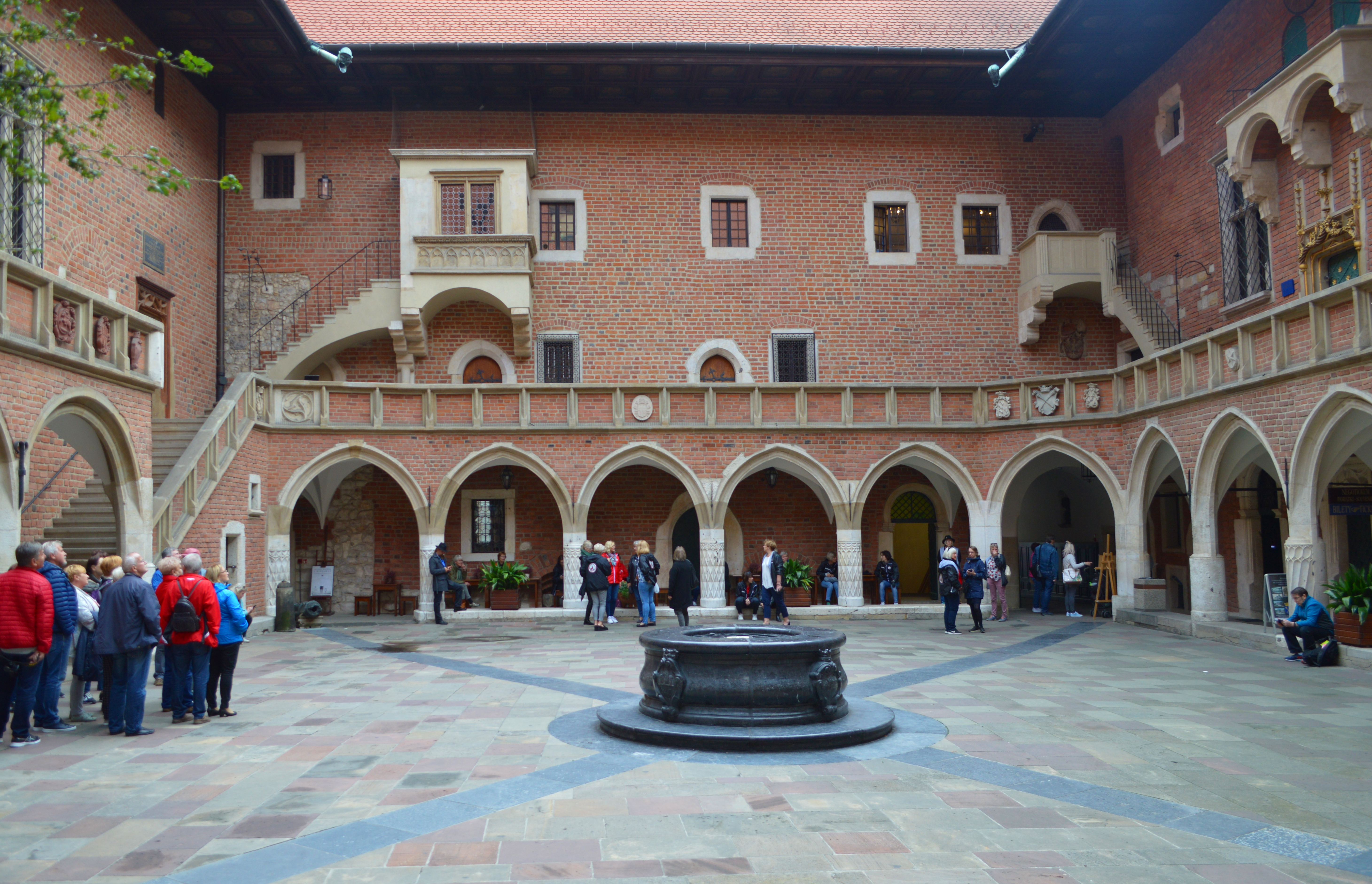 Courtyard of the ‘Great College’, at the Jagiellonian University, Kraków .The Scotch Mist Gallery contains many photographs of historic buildings, monuments and memorials of Poland.